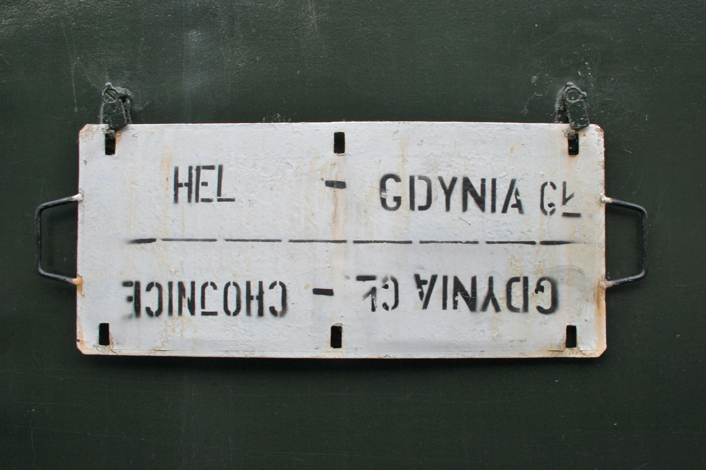 Bhp car detail.